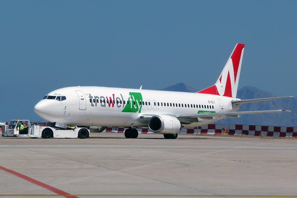 A Boeing 737-400 of Mistral Air, wetleased and operated for the Italian airline Trawel Fly. Seen at Palermo-Punta Raisi airport during push-back.